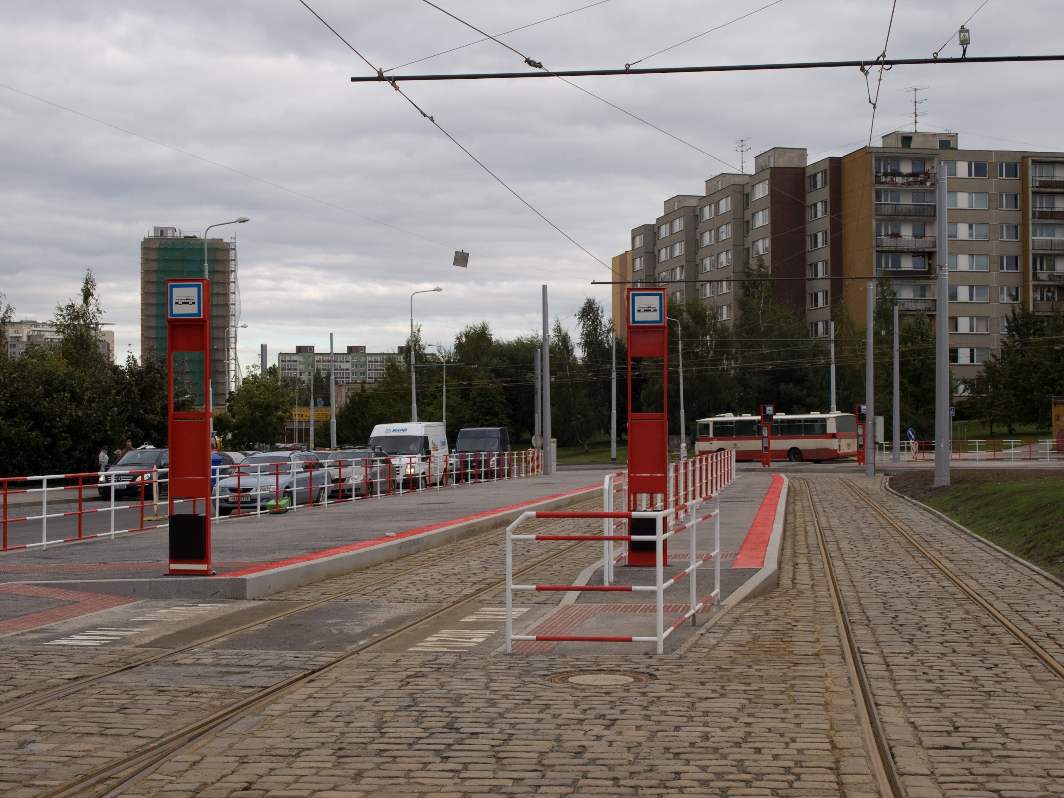 Sídliště Řepy tram loop, day before reopening of tram track Vozovna Motol – Sídliště Řepy